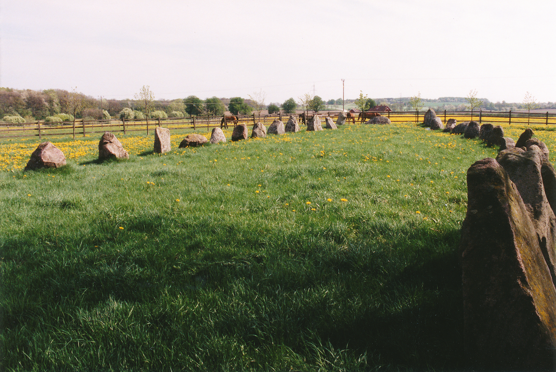 The ship grave late iron age at South Ugglarp in Scania Sweden.